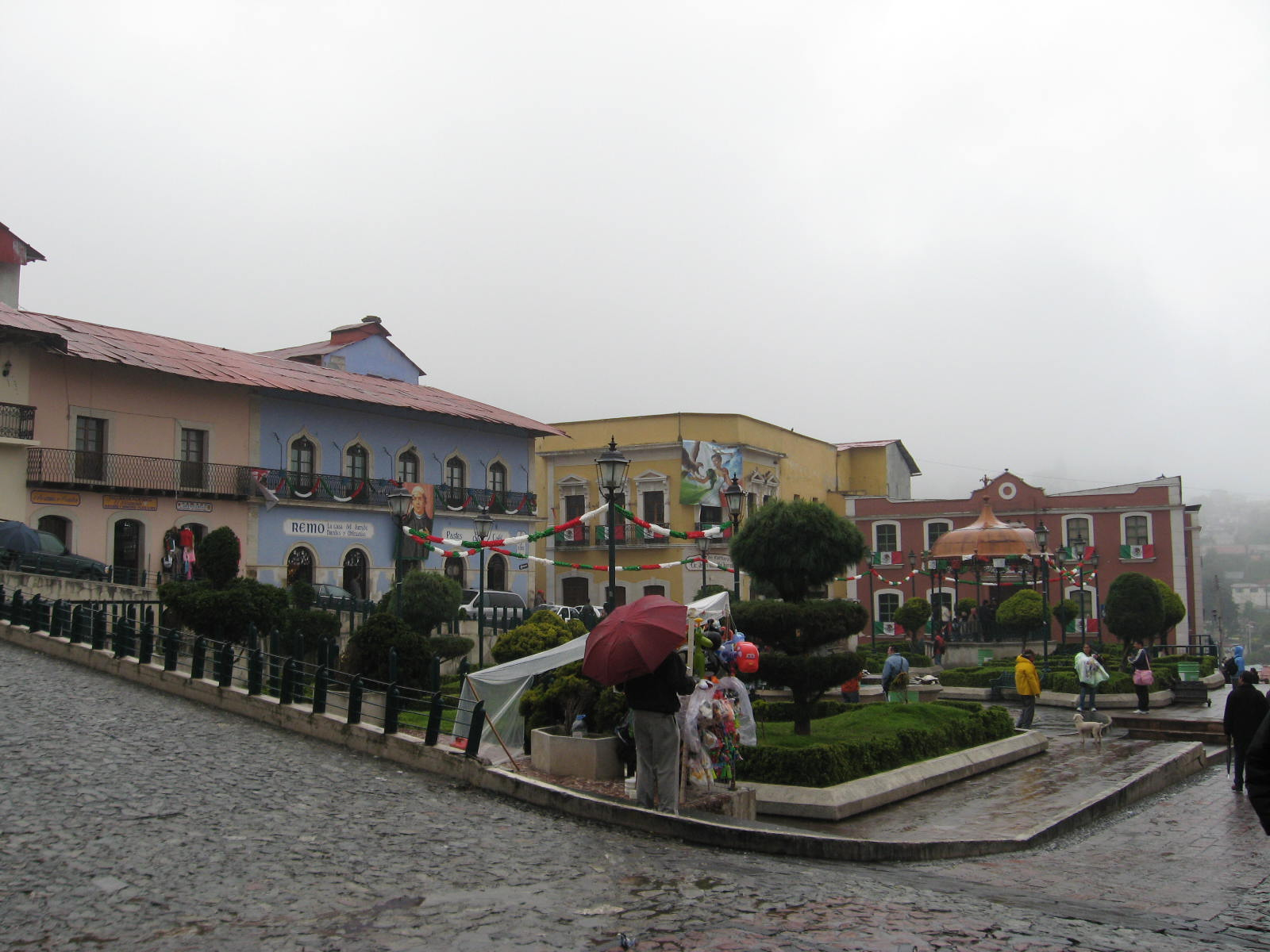 Main plaza in Real del Monte Hidalgo State Mexico